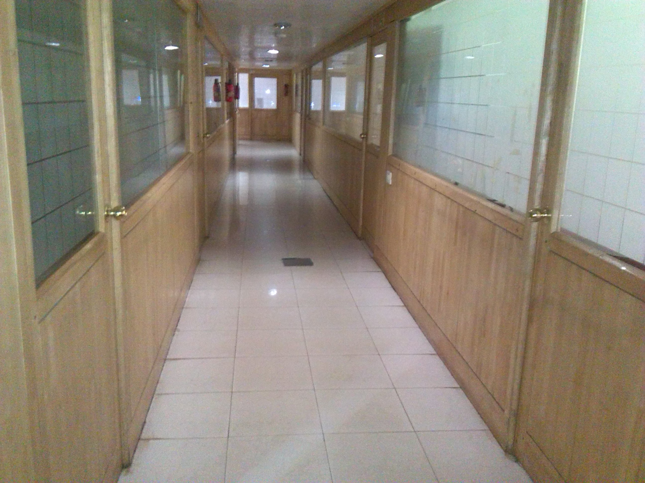 inside